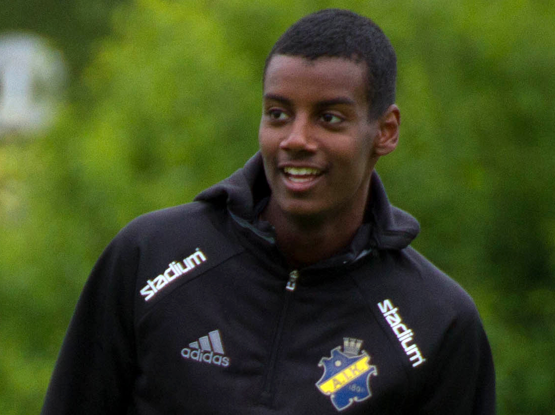 Alexander Isak (AIK striker) in May 2016 during a training session.